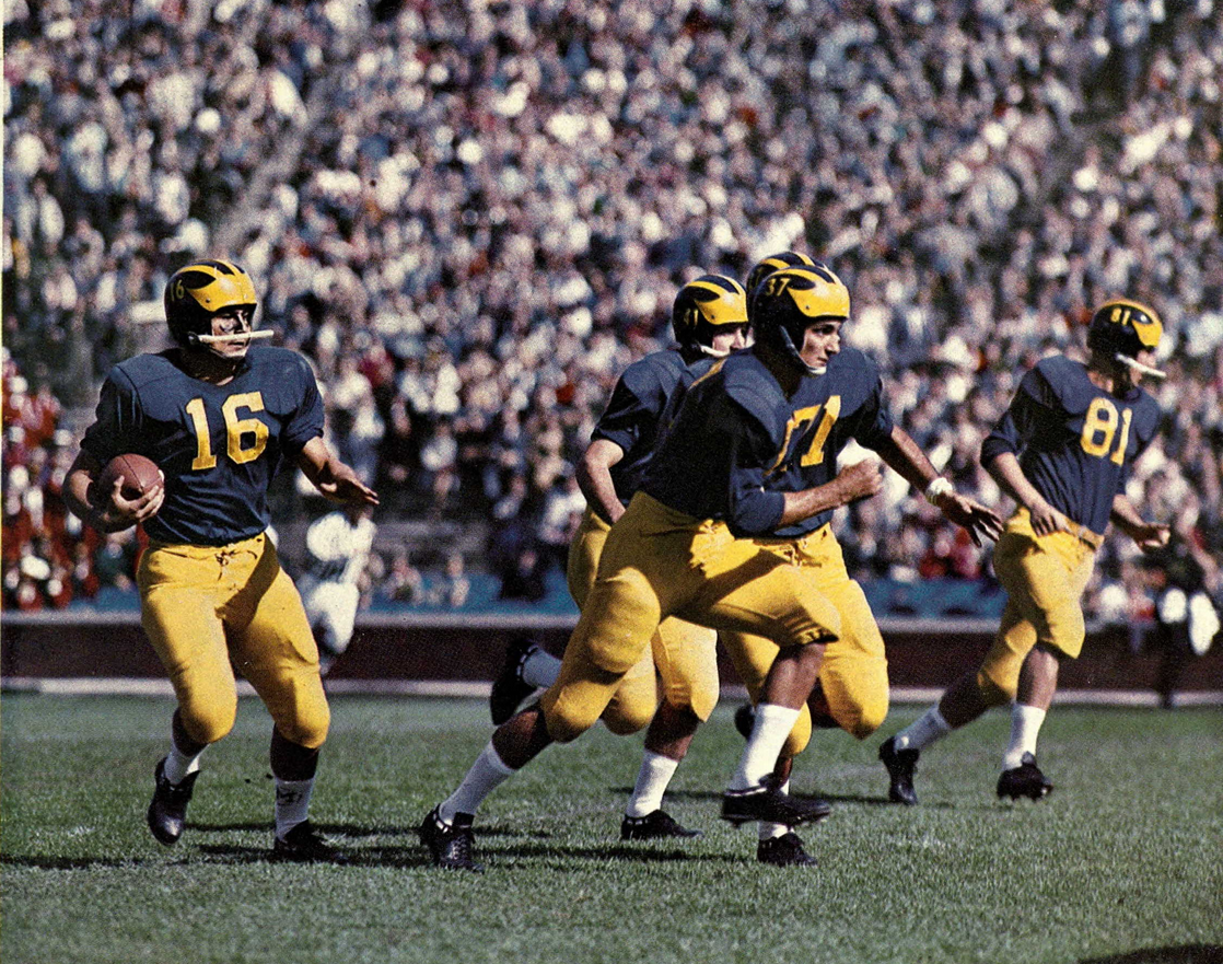 1959 Michigan Wolverines football team, including Fred Julian carrying ball